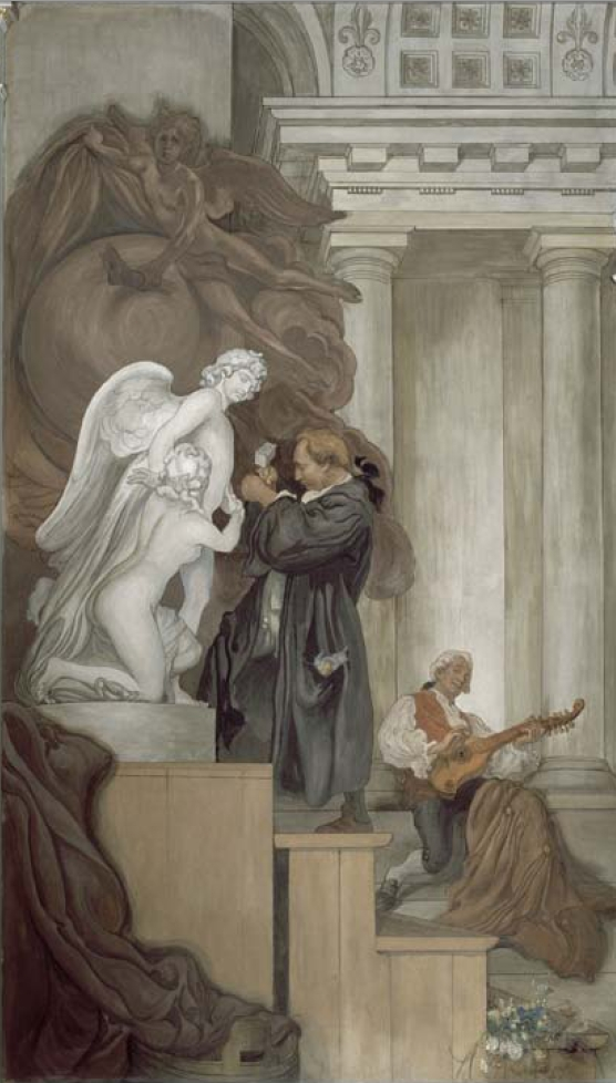 Cartoon for the Fresco in the Lower Hall of the NM